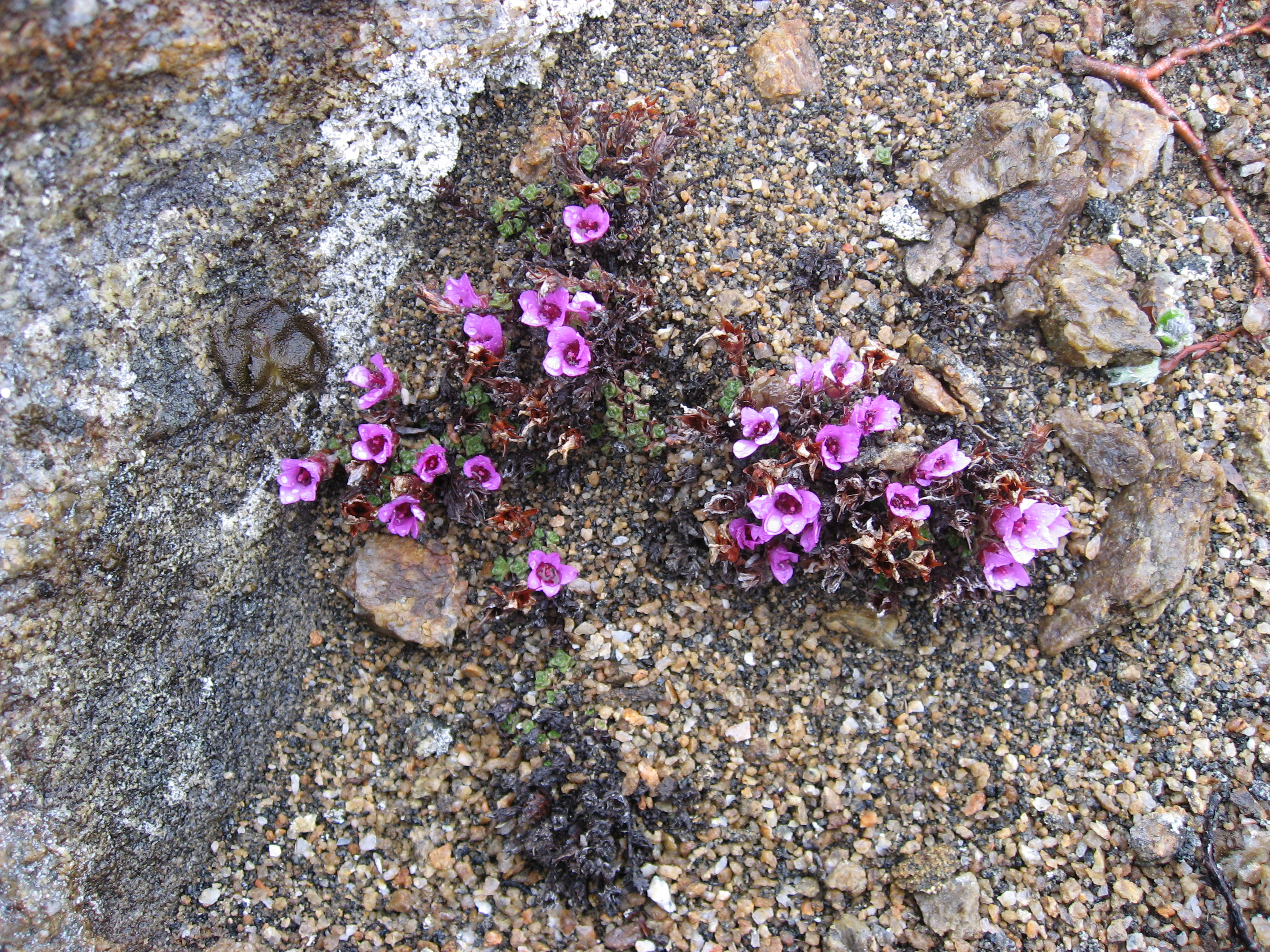 Purple Mountain Saxifrage (Saxifraga oppositifolia) photographed by me in Upernavik, Greenland